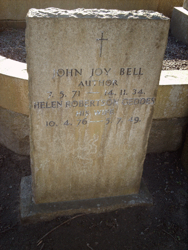 Gravestone of the Scottish author J.J. Bell. Photo taken by Dr. Gavin T.D. Greig.